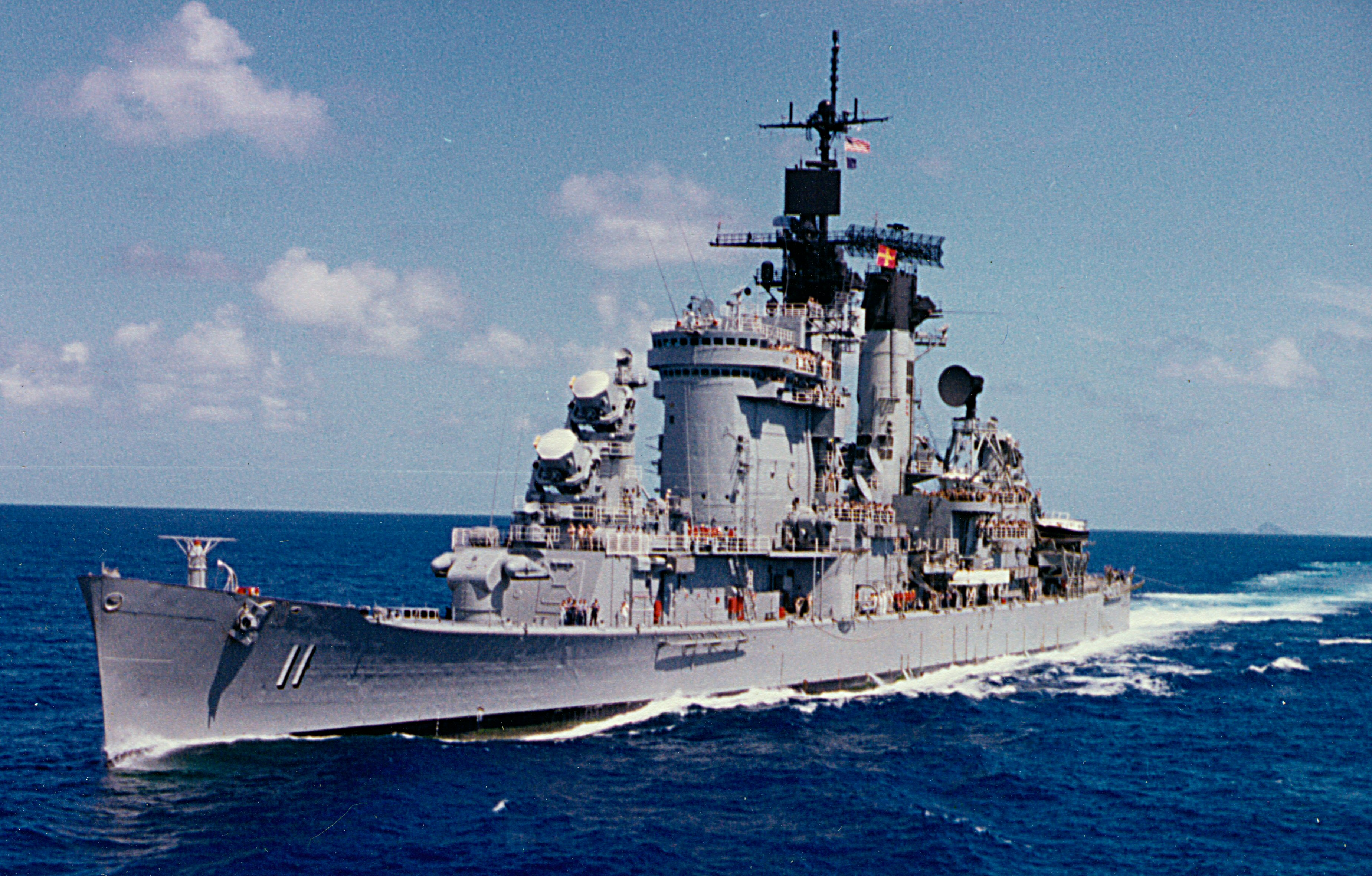 The U.S. Navy guided missile cruiser USS Chicago (CG-11) in the Coral Sea, in October 1979. The photograph was taken from the deck of the Australian aircraft carrier HMAS Melbourne (R21) as the two ships joined company to conduct a replenishment at sea exercise. The photo was taken during during exercise "Kangaroo II", 10-28 October 1979, which involved seven U.S. Navy vessels and twenty Royal Australian Navy and Royal New Zealand Navy ships. Chicago joined on 15 October after memorial services were conducted in the vicinity of the Solomons for her predecessor USS Chicago (CA-29), and for HMAS Canberra (D33) lost off Savo Island in August 1942. Chicago proceeded to Sydney for a week immediately after the exercise, and subsequently arrived back in San Diego via Subic Bay and Pearl Harbor on 17 December to begin preparations for her decommissioning.